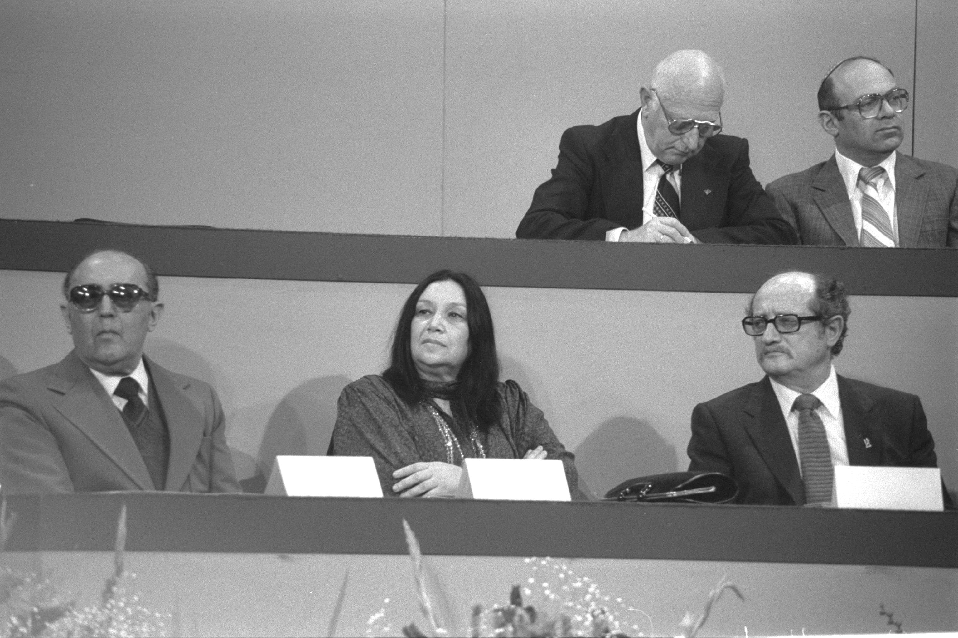 The 1983 Israel prize award ceremony at the Jerusalem Theatre on Israel's 35th indepedendence day. in the photo, the recipients of the prize on stage.